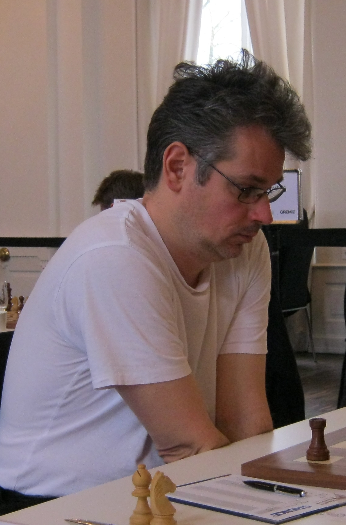 Bernd Kohlweyer, chess player from Germany